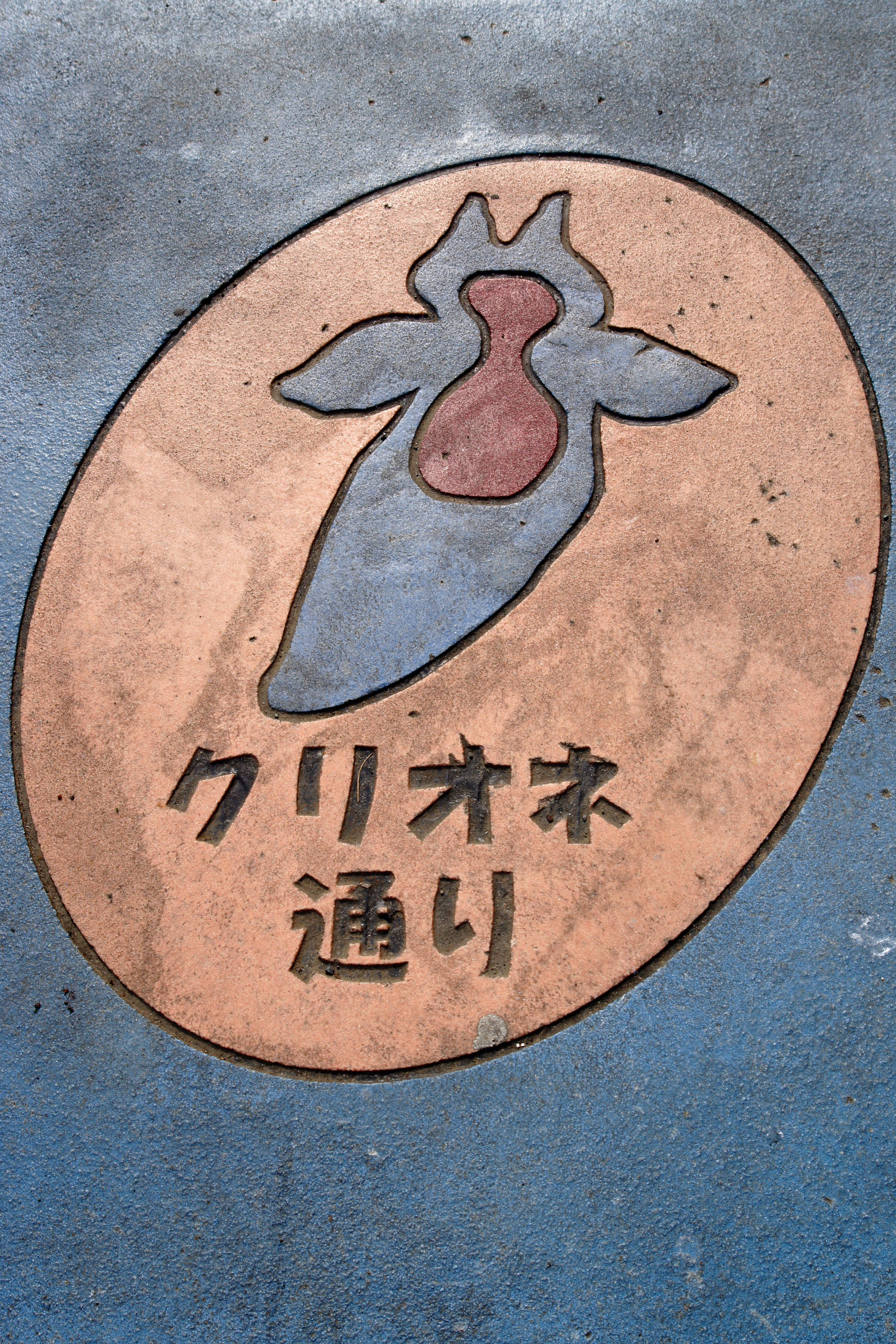 Clione-dori (Clione street) in Abashiri, Hokkaido prefecture, Japan